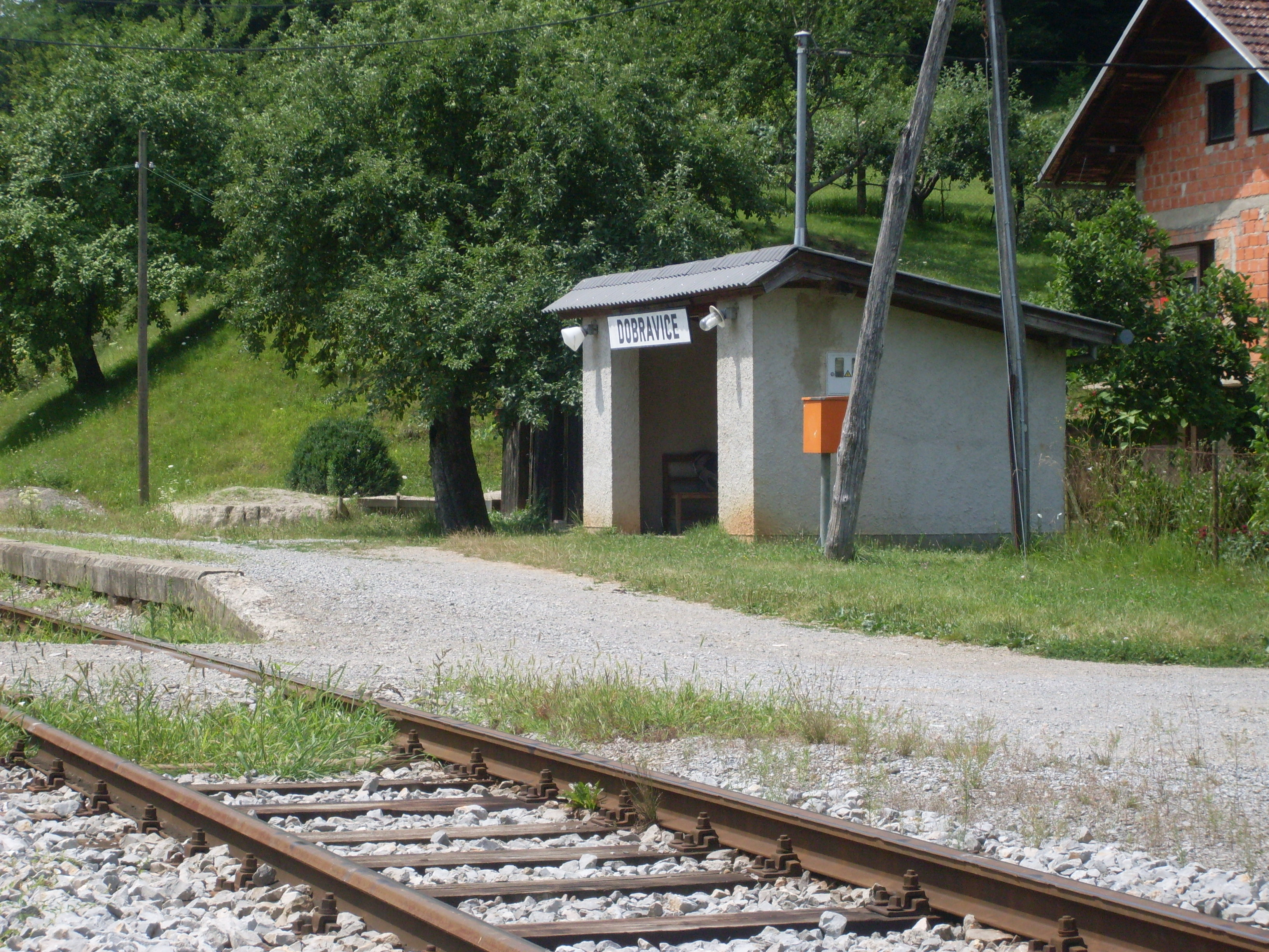 Railway halt Dobravice, located in in Dolnje DobraviceSlovenščina: Železniško postajališče Dobravice, nahaja se v Dolnjih Dobravicah